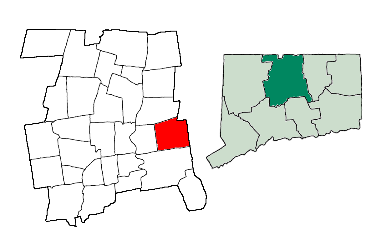 Edited Hartord_Hartford.png with Microsoft Paint.